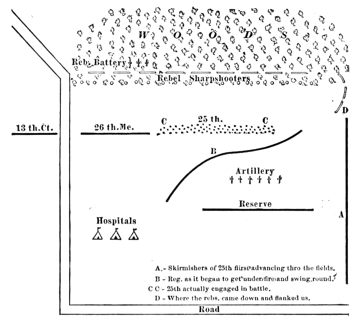 A published adaptation of a rough map of the Battle of Irish Bend, made by Henry Goodell, a lieutenant in the Civil War who was in this skirmish. The "25th" described is the 25th Connecticut Volunteer Regiment. The rebel sharpshooters were the Confederate troops led under General Richard Taylor, while the Union troops were led by General Nathaniel P. Banks and Brigadier General Cuvier Grover.